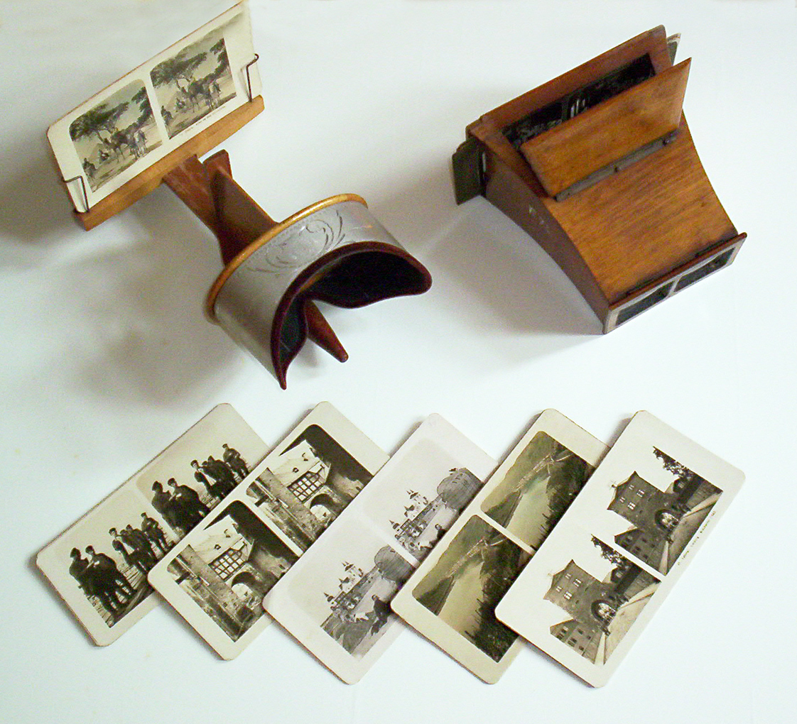 Stereoscope viewer, on display in the Schulhistorische Sammlung (School Historical Museum), Bremerhaven, Germany. By putting a picture in the viewer and looking at it through the viewer, a three-dimensional (stereo) image of the object can be seen. The stereo pictures shown consist of two different images of the same scene taken by a special stereo camera with two lenses an eyes-distance apart.